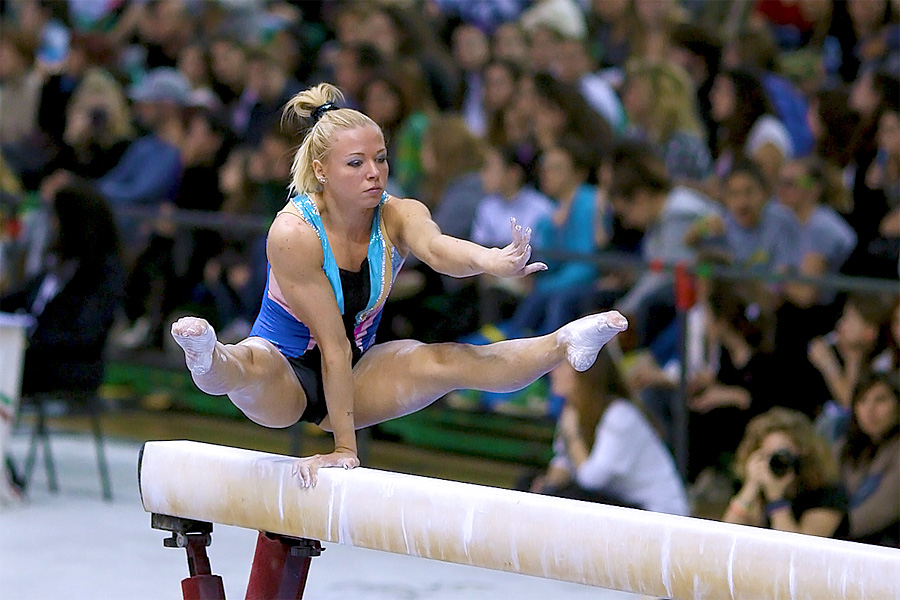 Dorina Böczögő performing a one arm press hold as part of her mount during her balance beam routine at the Italian Serie A meet in Florence, Italy, 2013. Personality rights warning Although this work is freely licensed or in the public domain, the person(s) shown may have rights that legally restrict certain re-uses unless those depicted consent to such uses. In these cases, a model release or other evidence of consent could protect you from infringement claims.